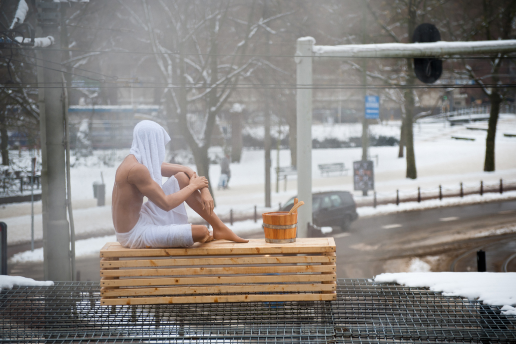 saunaman op de koelinstalatie van de noord zuid lijn